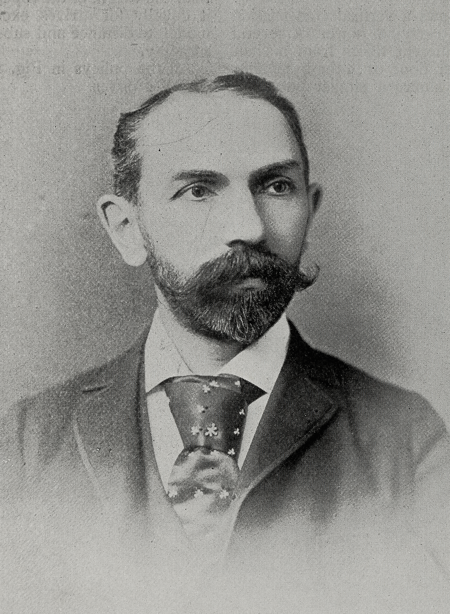 Cassier's Magazine of July 1892 had an article on page 226-232, written by Charles H. Werner and titled Technical Journals in America (Part I), dealing with the journal Power. It was accompanied by a number of illustrations, including this, on page 226, portraying Horace Monroe Swetland, president of the Power Publishing Company.